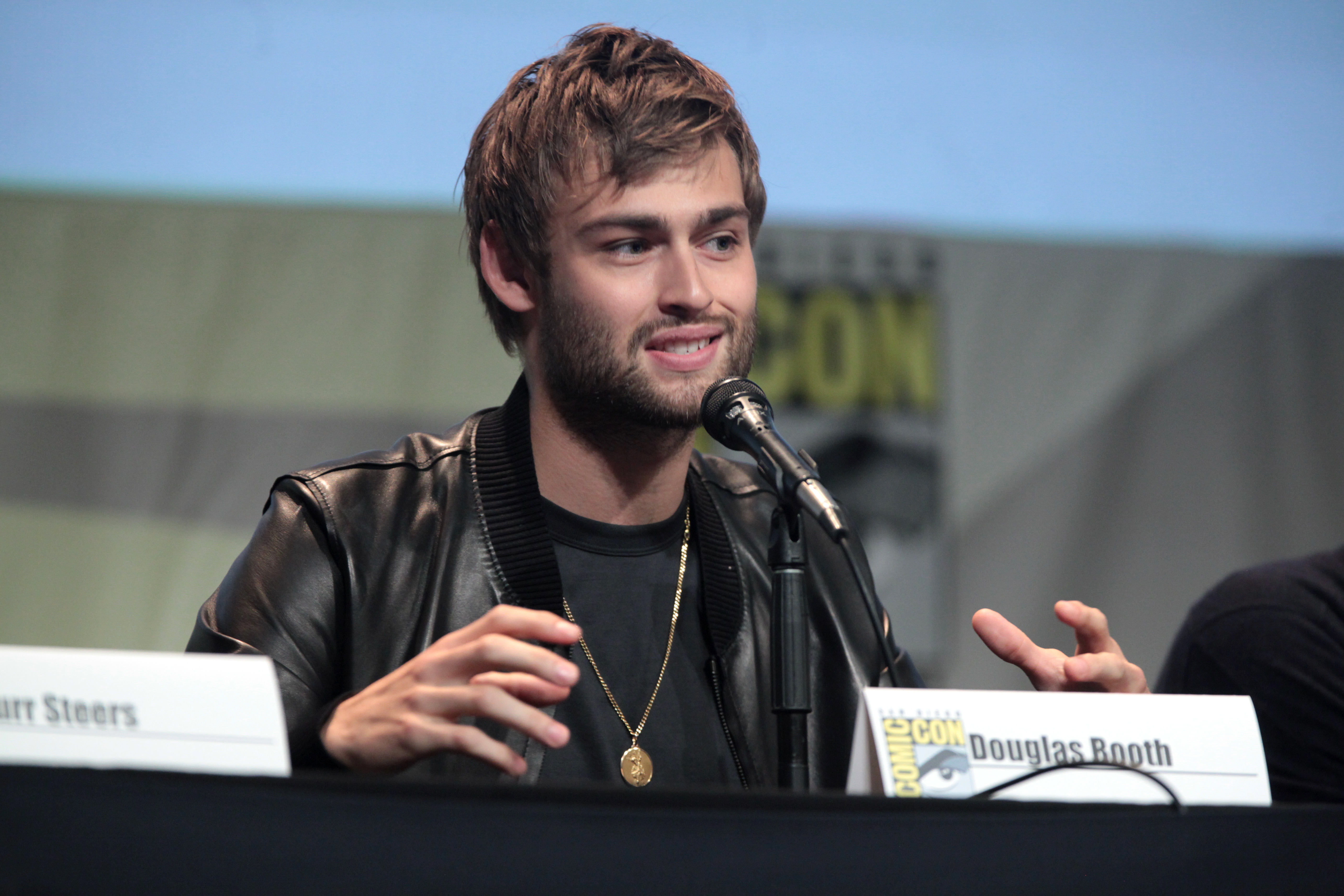 Douglas Booth speaking at the 2015 San Diego Comic Con International, for "Pride and Prejudice and Zombies", at the San Diego Convention Center in San Diego, California.